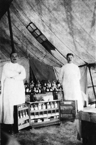 The First World War, Dragomanci, First Surgical Hospital II Army, 1916/17. Српски (ћирилица): Први светски рат, Драгоманци Апотека, Прве хируршке пољске болнице II армије. Фотографија је из ратног албума 1914-1918 др Ђорђа Жујовића (1896-1984).професора Радиологије на Медицинском факултету Универзитета у Београду, који је септембра 1915, ступио у одред ратних добровољаца.